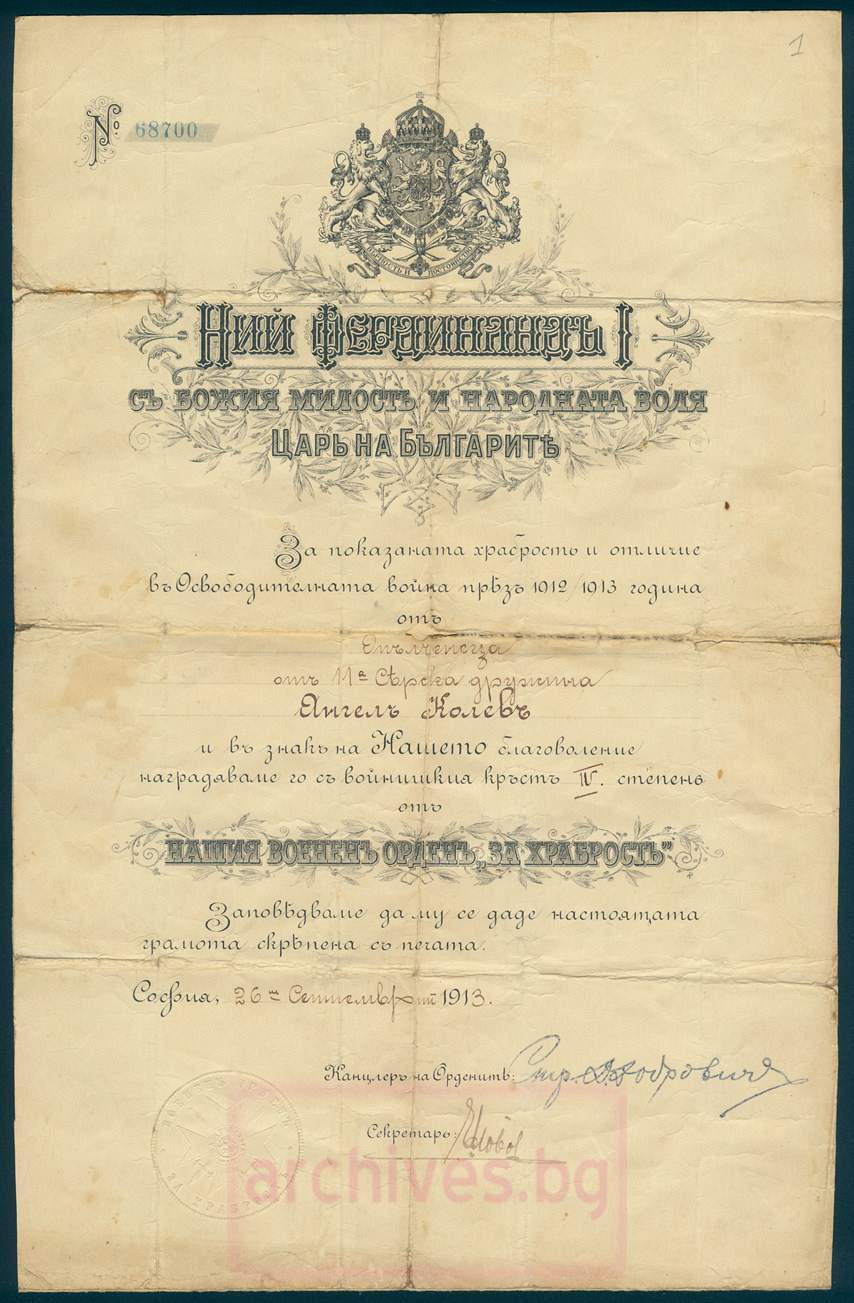 Angel Kolev's Order For Bravery Doploma